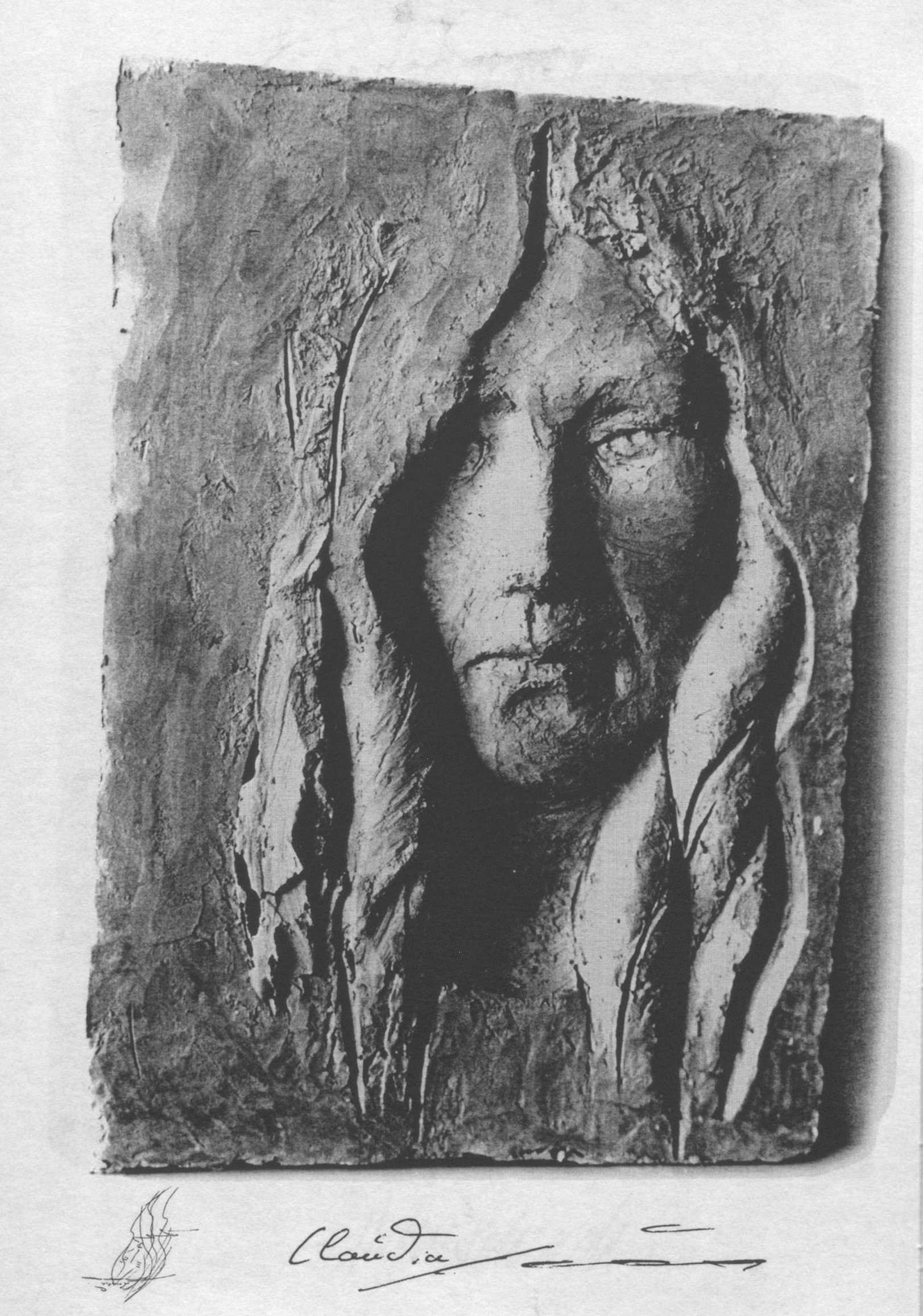 Portrait of Claudia Beate Schill, Porträtrelief von Eva Zippel.